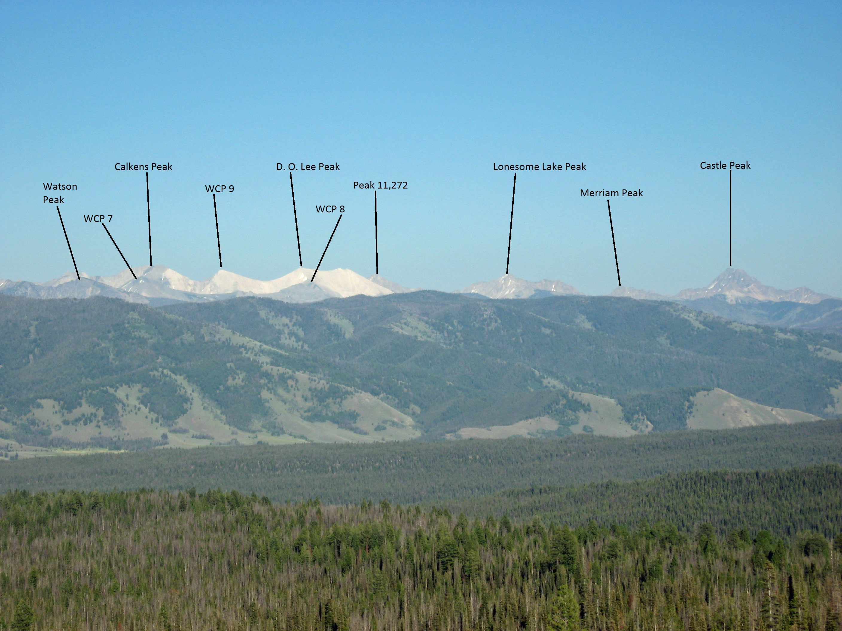 Some of the peaks of the White Cloud Mountains in Sawtooth National Recreation Area, Idaho.